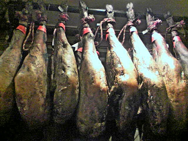 Jamones de pata negra (black leg spanish cured ham)